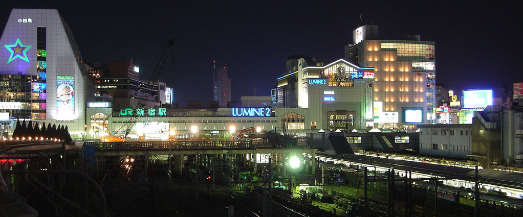 Shinjuku Station, Tokyo The busiest train station in the world. Much of this area is under construction, but it's still amazing to look at.